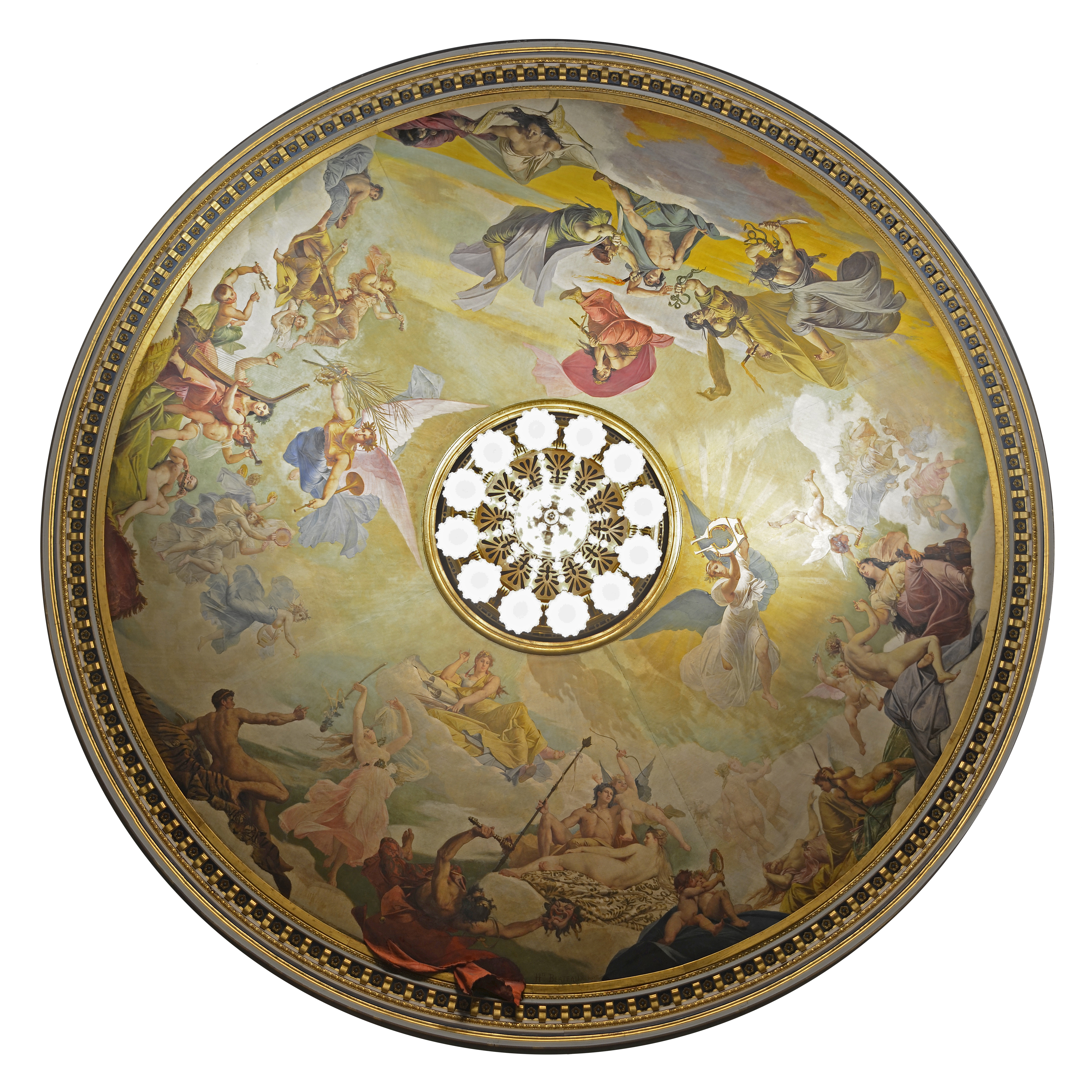 Painting by Hippolyte Berteaux, Théâtre Graslin ceiling - Nantes .